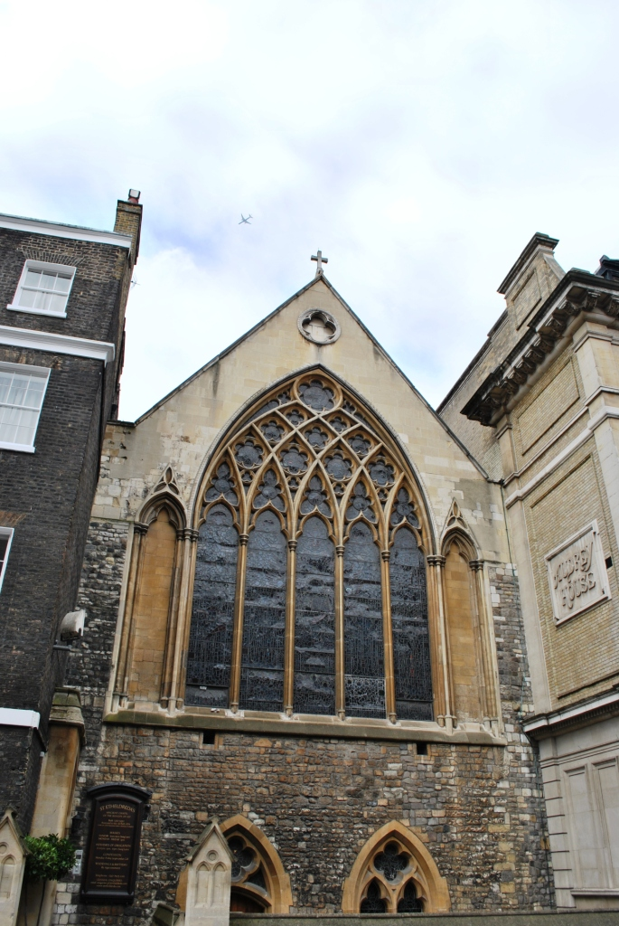 Roman Catholic Church of St Etheldreda and Attached Walls and Piers